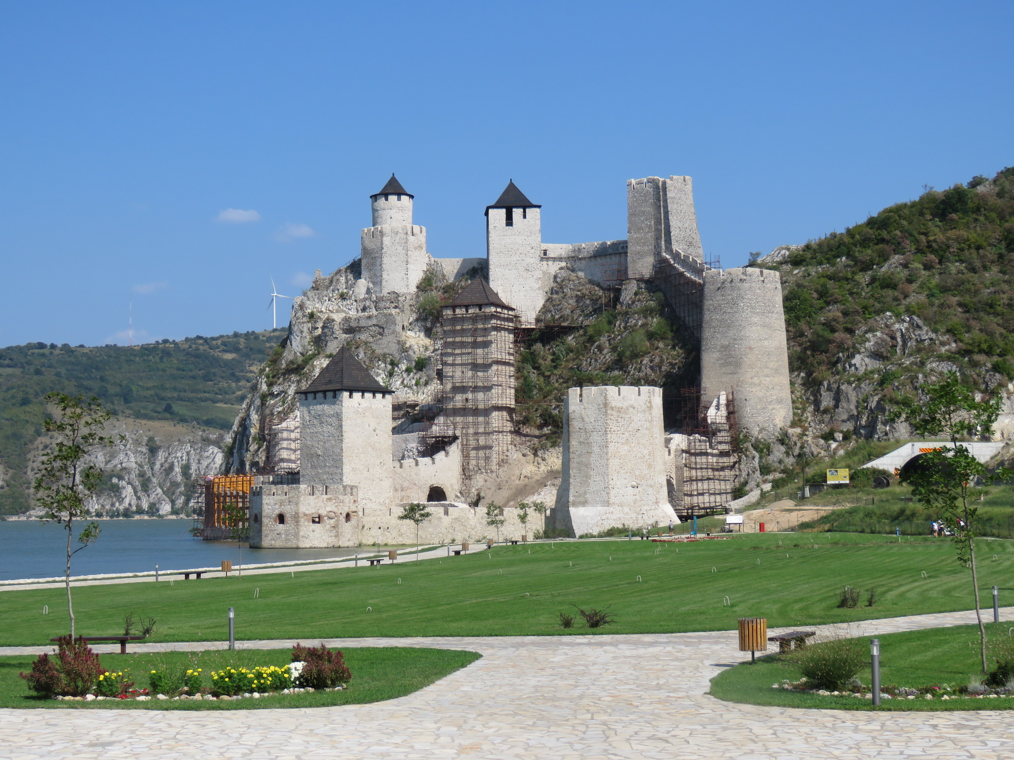 Golubac Fortress